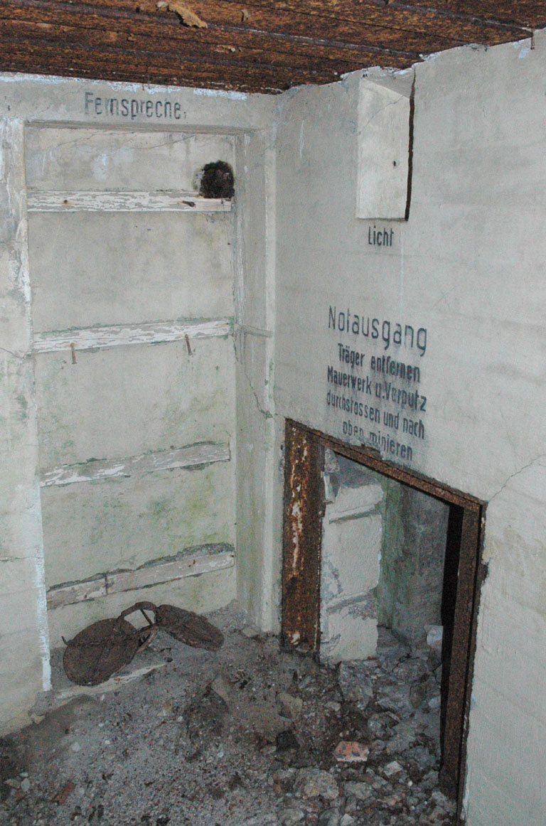 inside bunker 97 of the Neckar-Enz-Stellung near Gundelsheim.